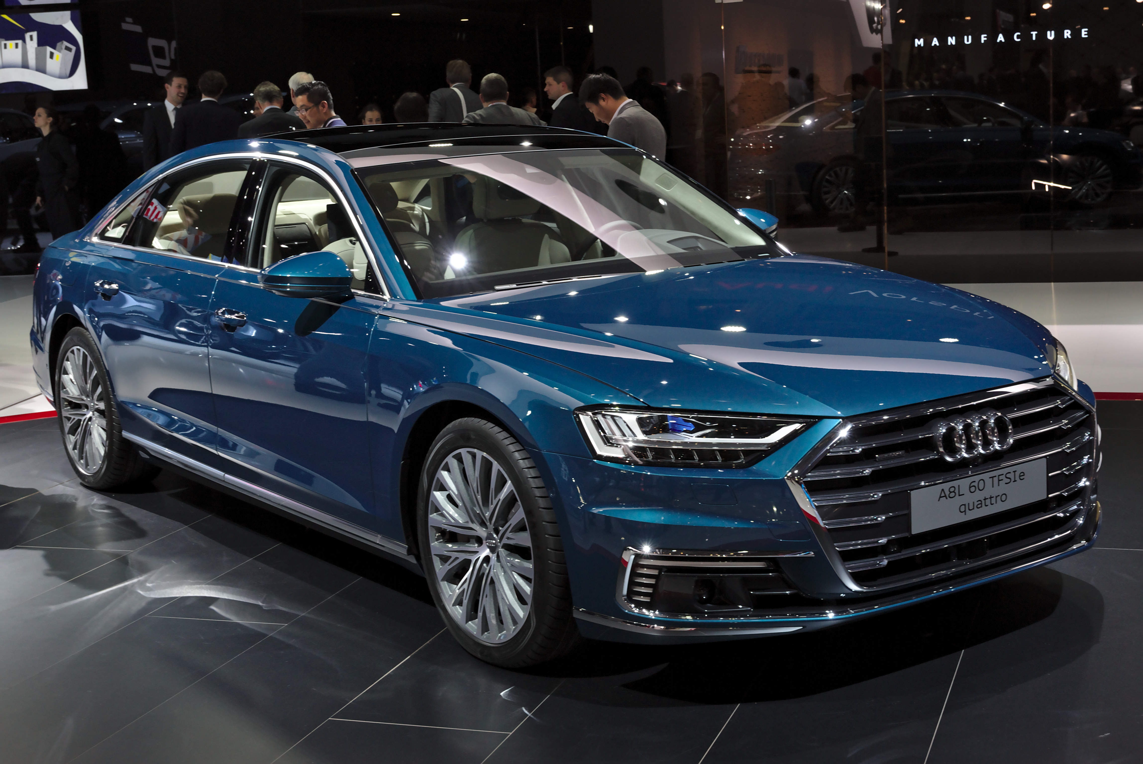 Audi A8L 60 TFSIe Quattro at Geneva Motor Show 2019